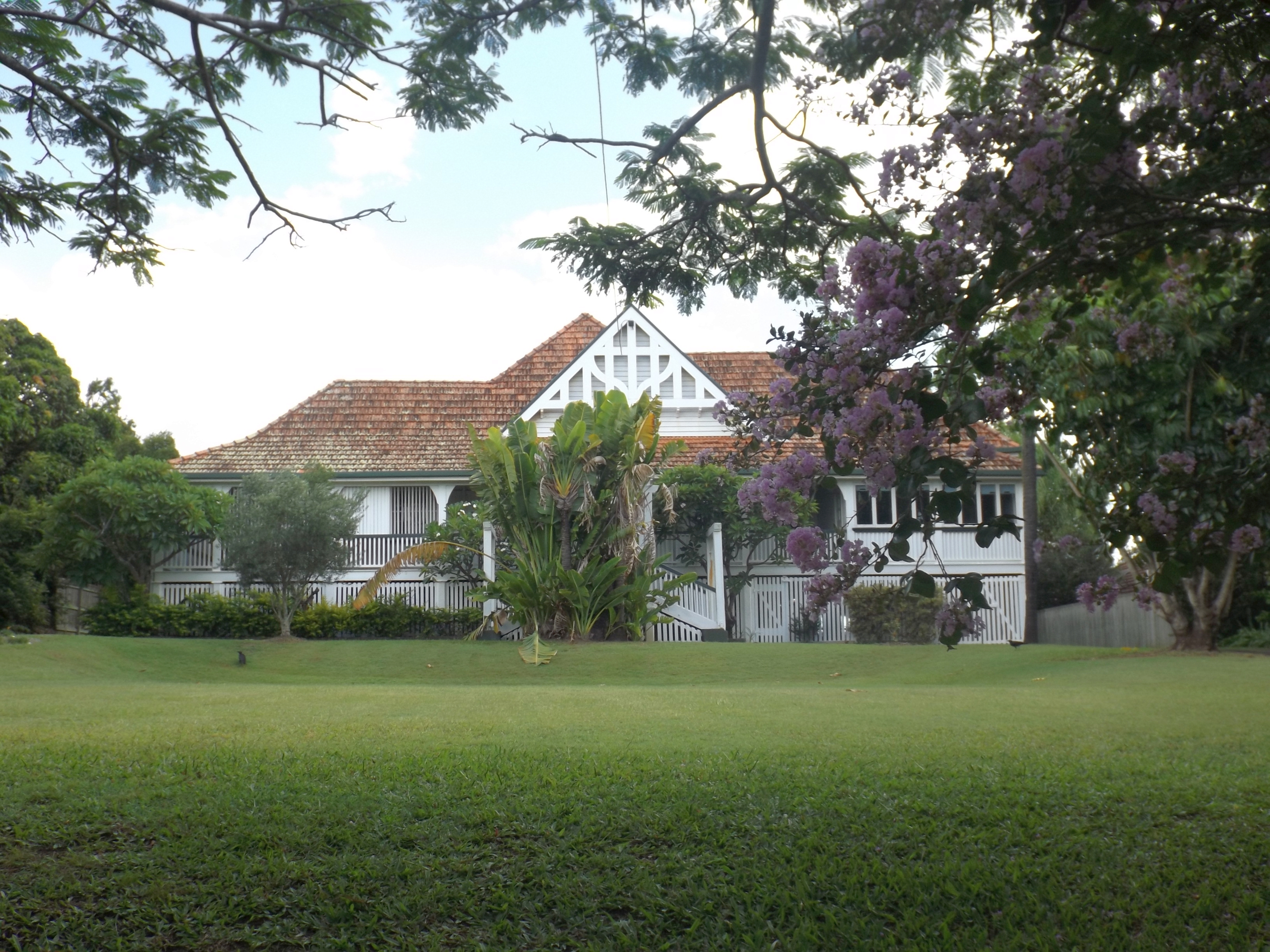 Photo of Kitawah residence at East Brisbane, Brisbane, Queensland, Australia.